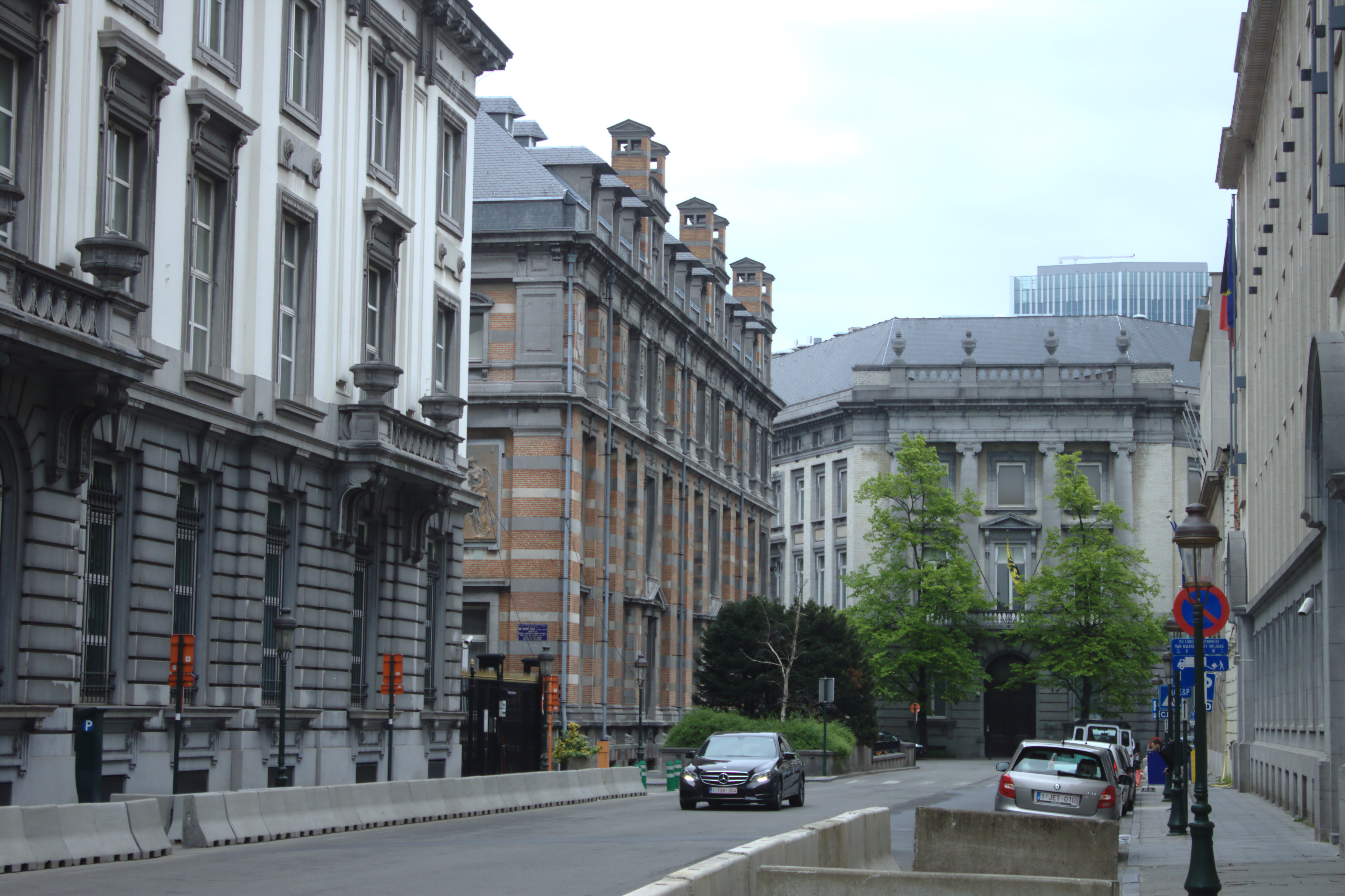 Buildings in the northern part of the Rue Ducale Street, Brussels, Belgium